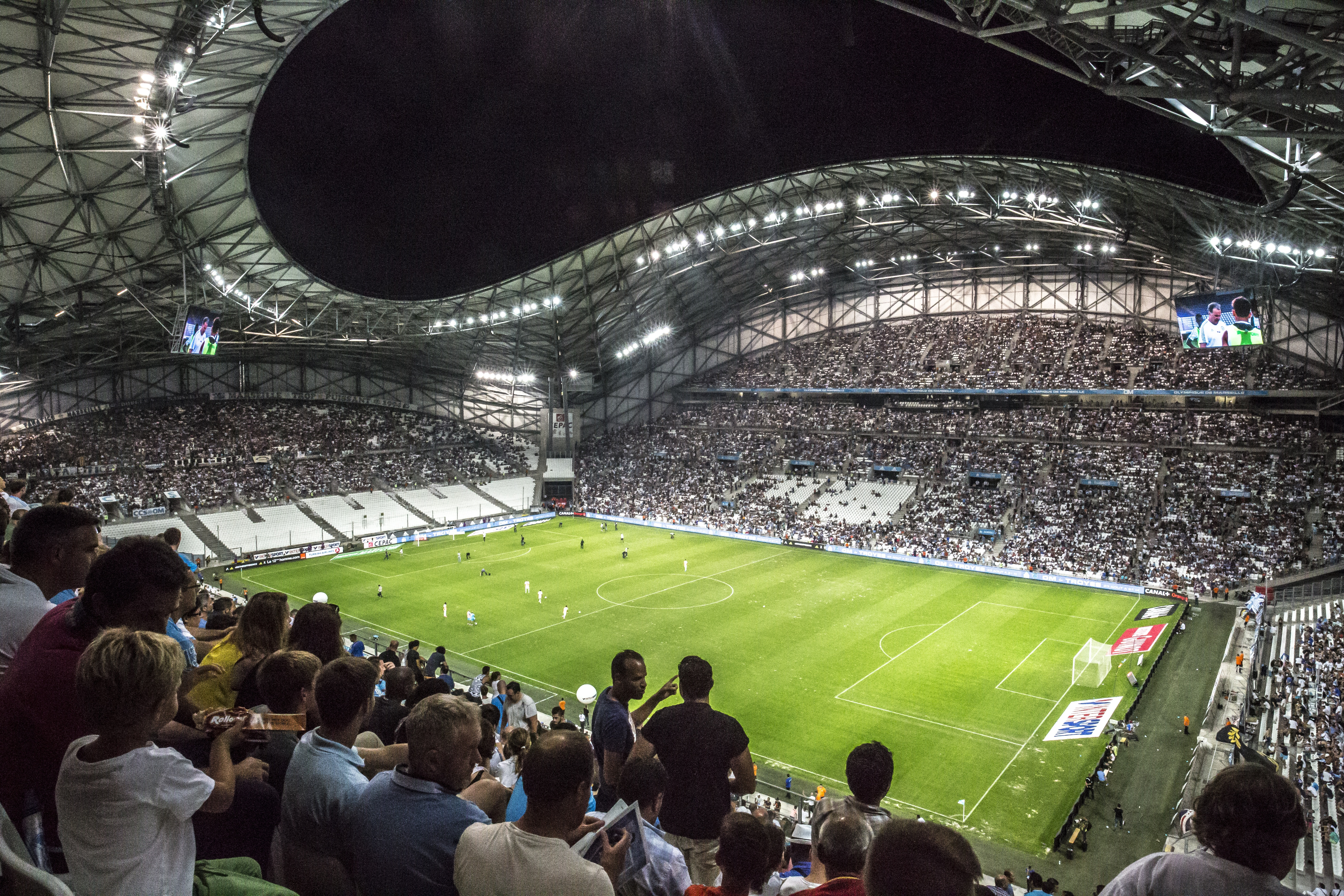 Stadium Football Velodrome Marseille for the match between Olympique de Marseille and Stade Malherbe Caen